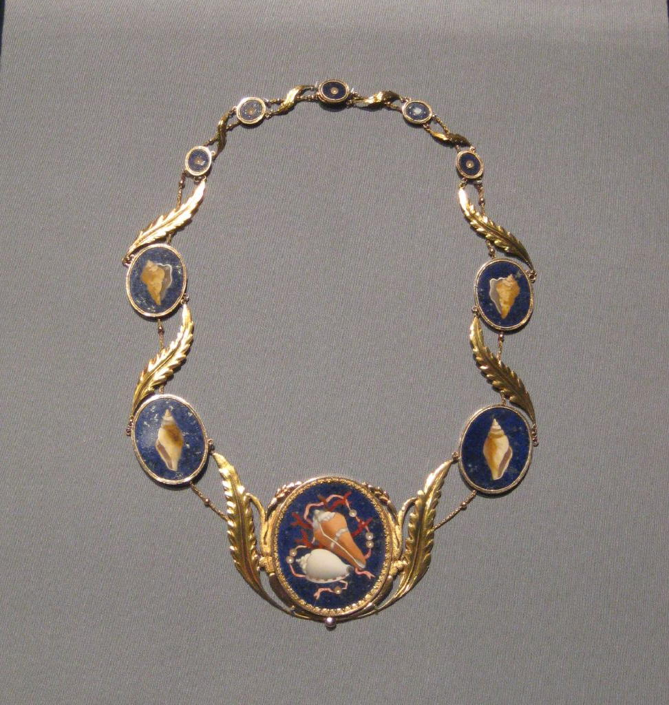 A c.1810 Hardstone parure (matching royal jewellry) made for Caroline Bonaparte Murat by the Galleria dei Lavori of Florence. It was designed by Carlo Carlieri. Now in the Metropolitan Museum of New York.